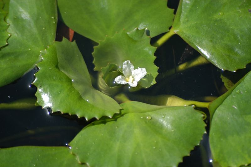 Trapa natans, waternut, flower, photo from a location in Lower Austria